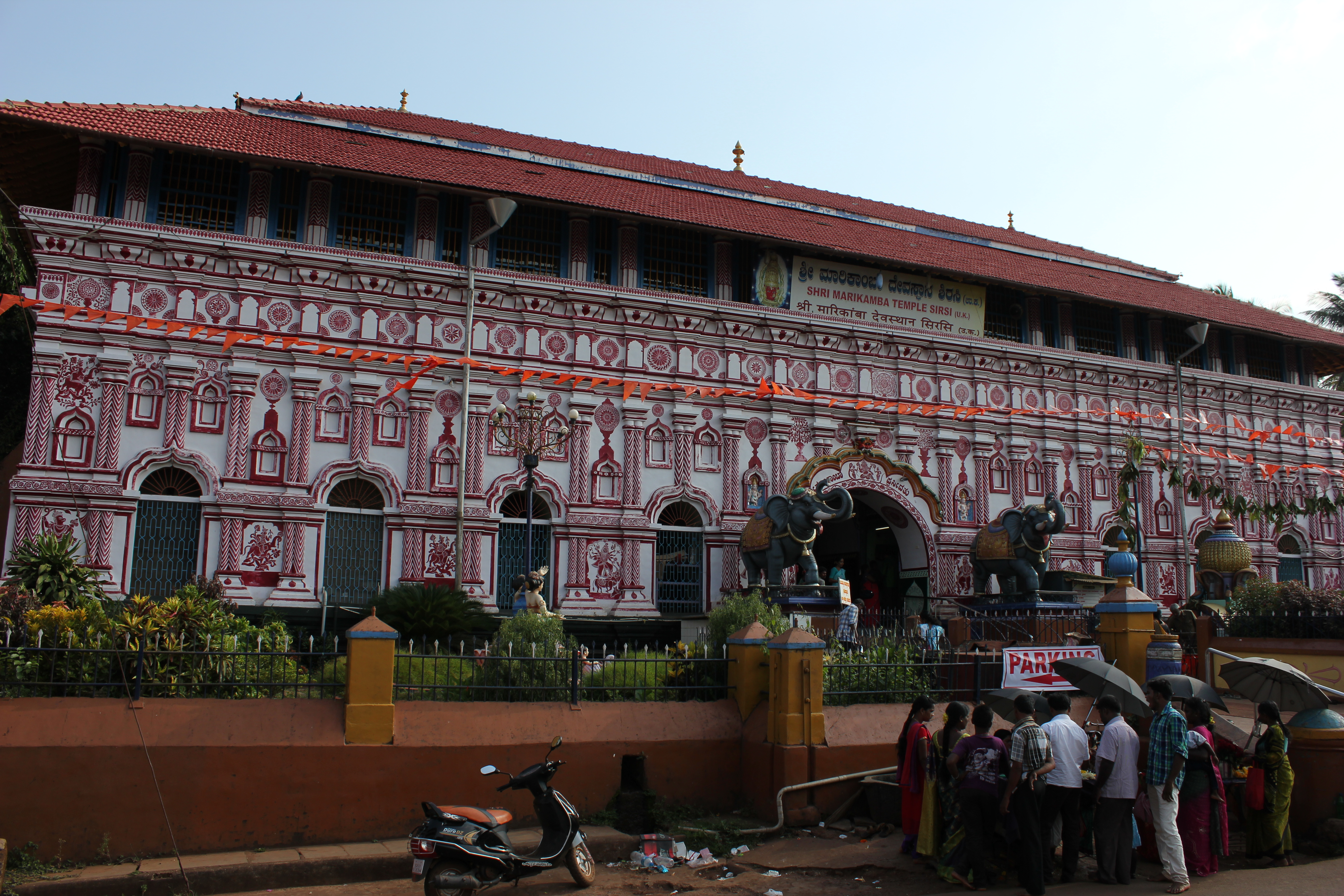 The temple was built by the local Sonde Chief Sadashiva Raya toward the end of the 17th century.